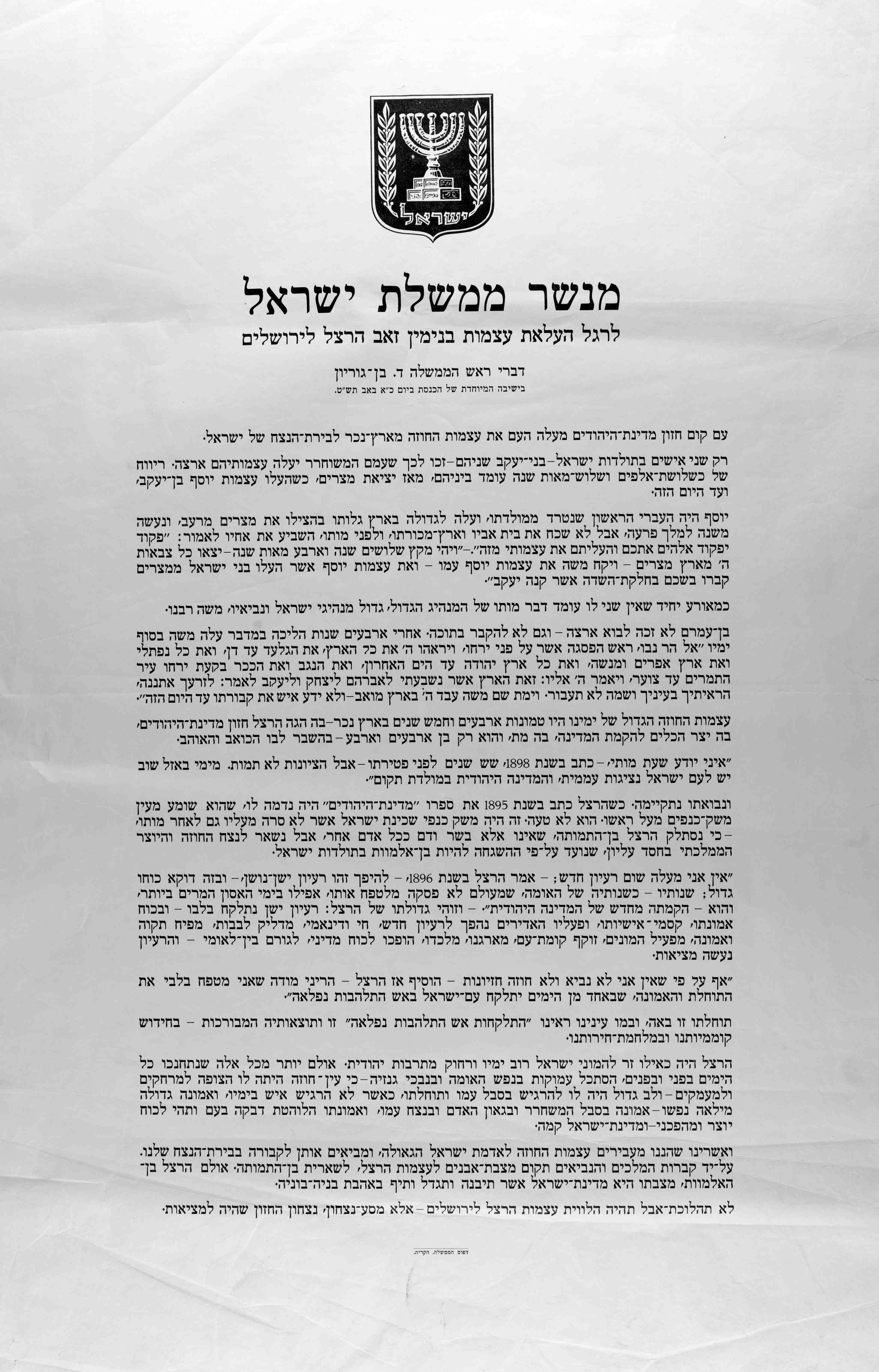 Ben-Gurion anouncing the Herzl reburying